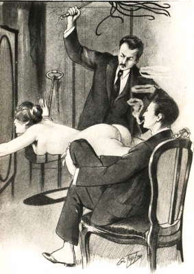 Image of S/M sexuality